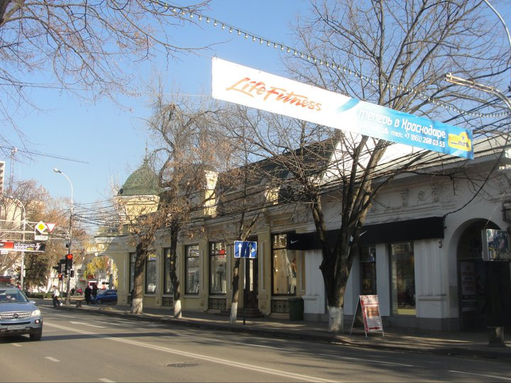 View of Krasnaya street